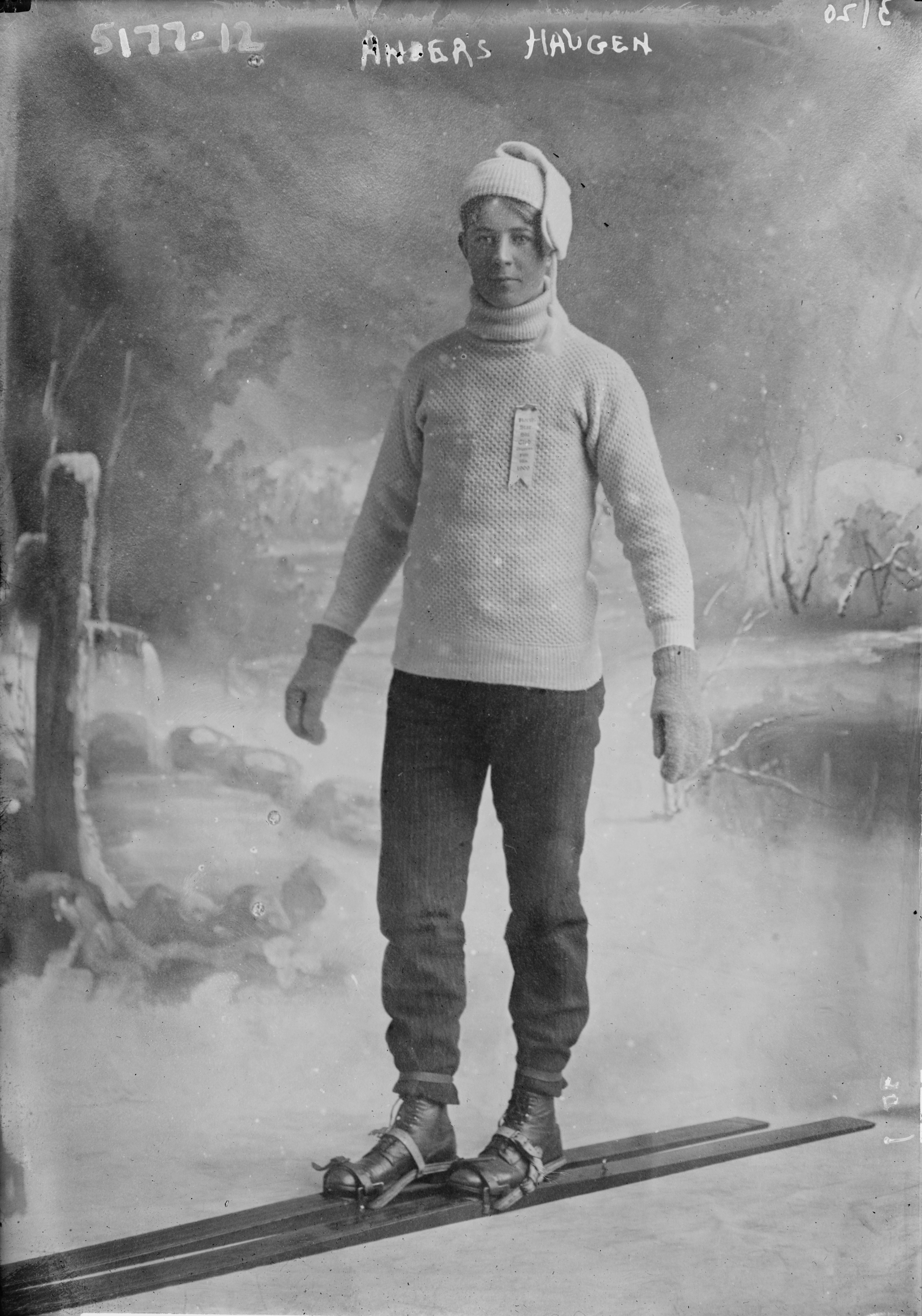 Anders Haugen. The ribbon on his sweater says "North Star Ski Club" and seems to be dated "1909" at the bottom.